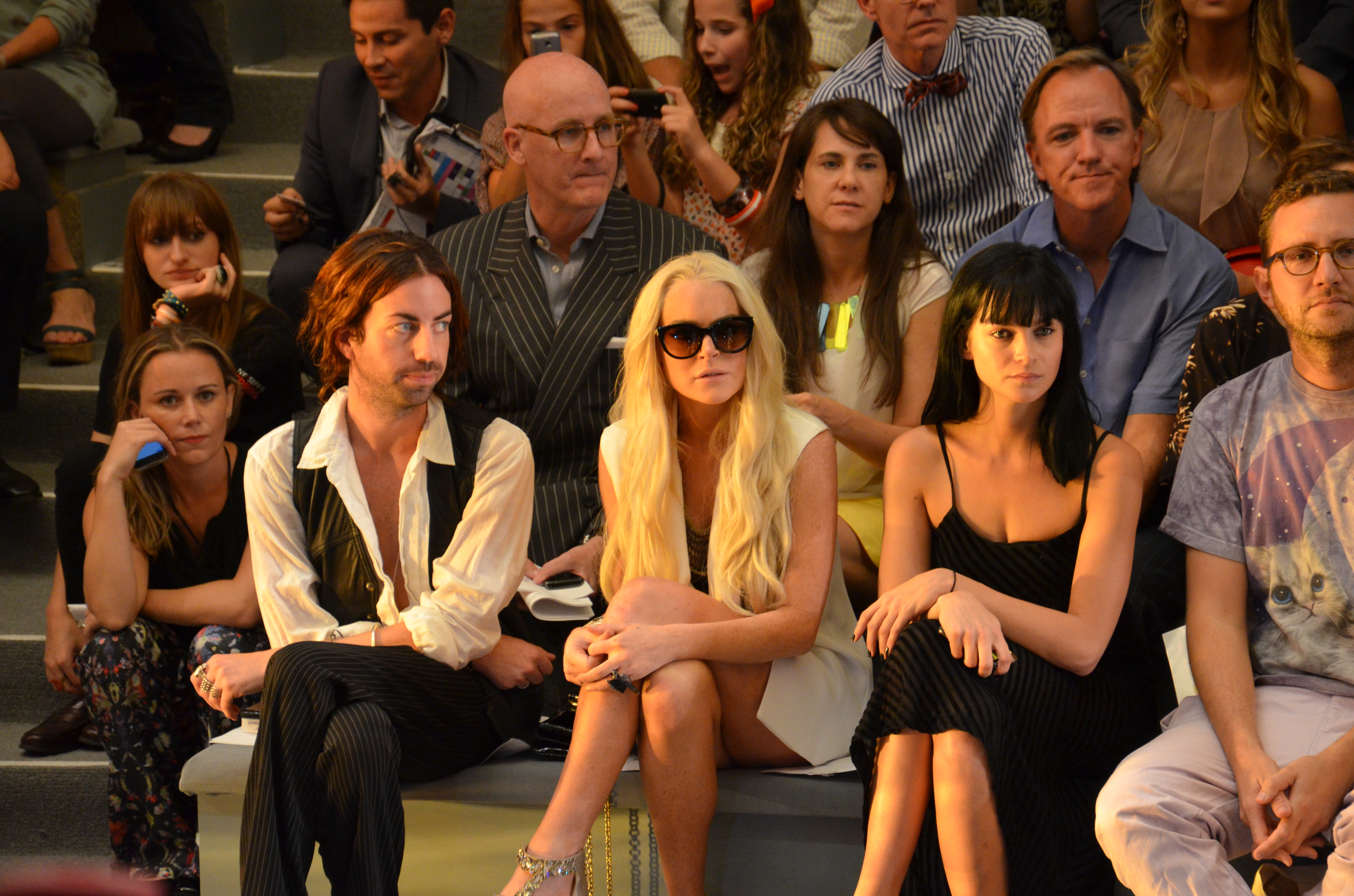 Lindsay Lohan at Cynthia Rowley in New York, 2011. Photographed with a Nikon D7000.